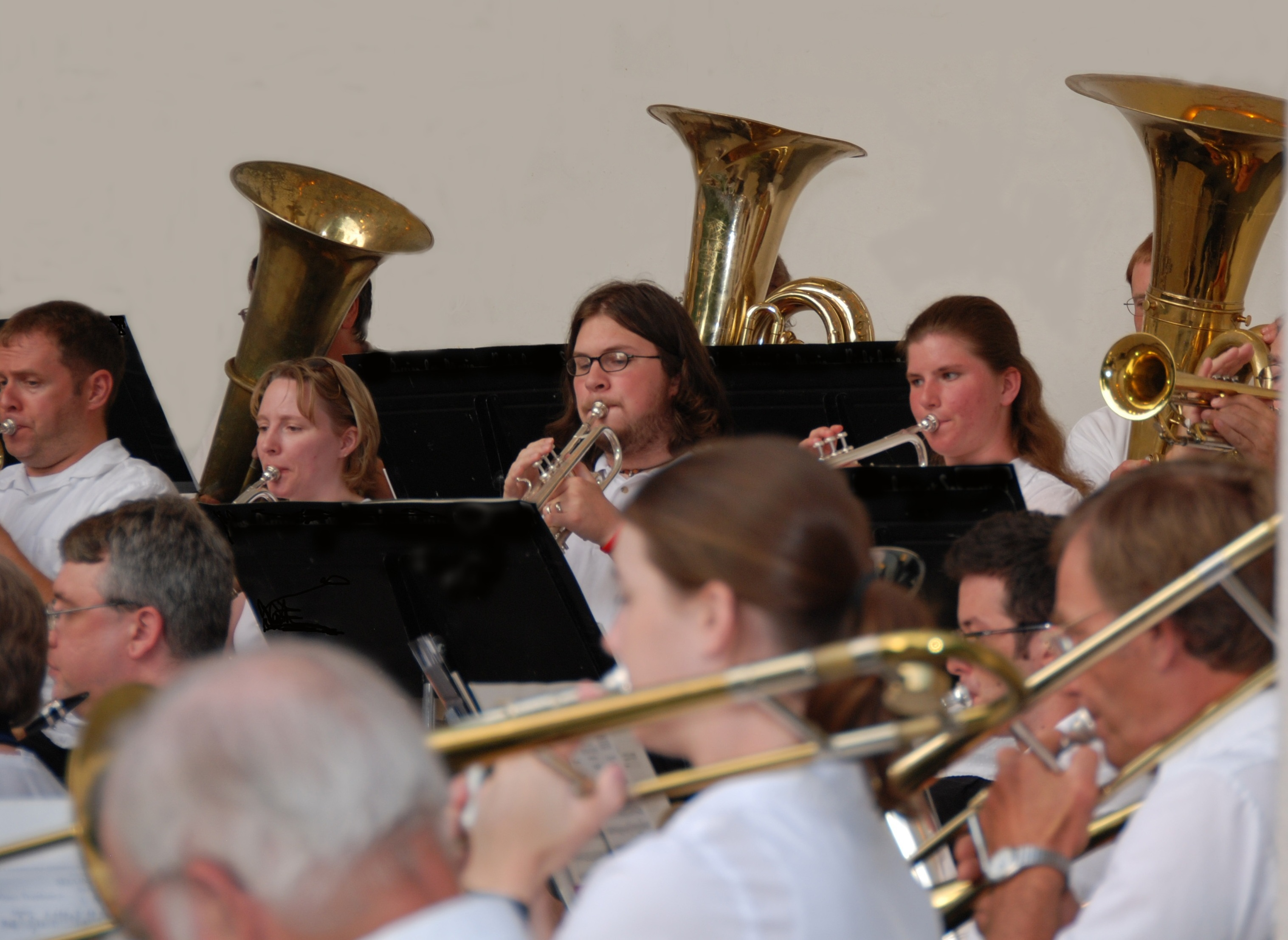 Wisconsin, the Eau Claire Municipal Band's tuba section et al